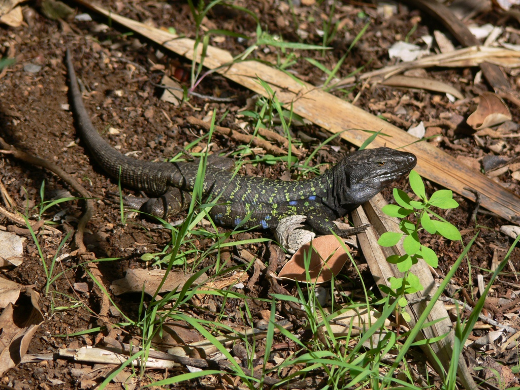 Gallotia galloti, Photoed in thePuerto de la Cruz Botanical Gardens, 2008